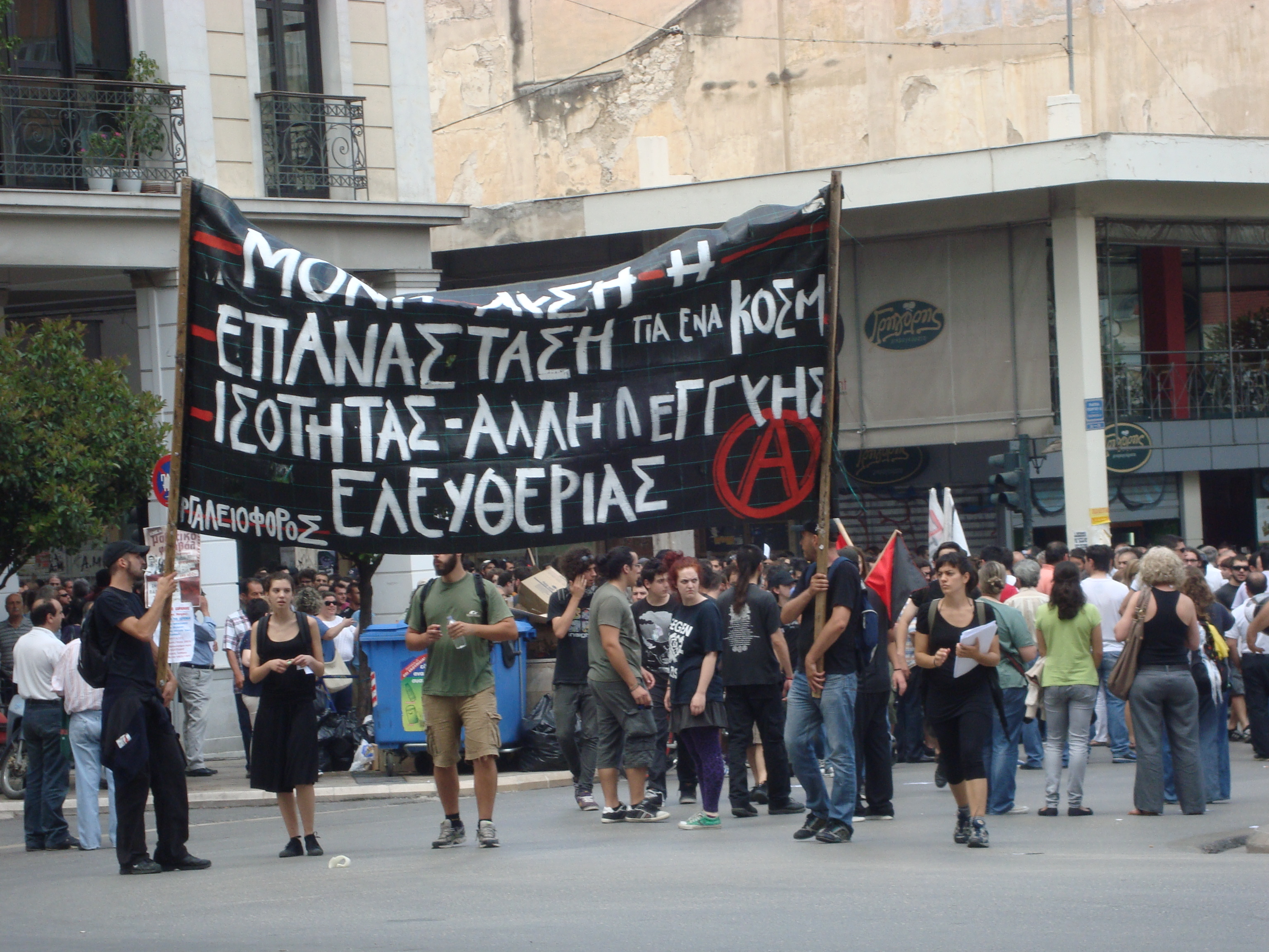 Demonstration ch bin so sauer ich hab ein schild gebastelt! 2011